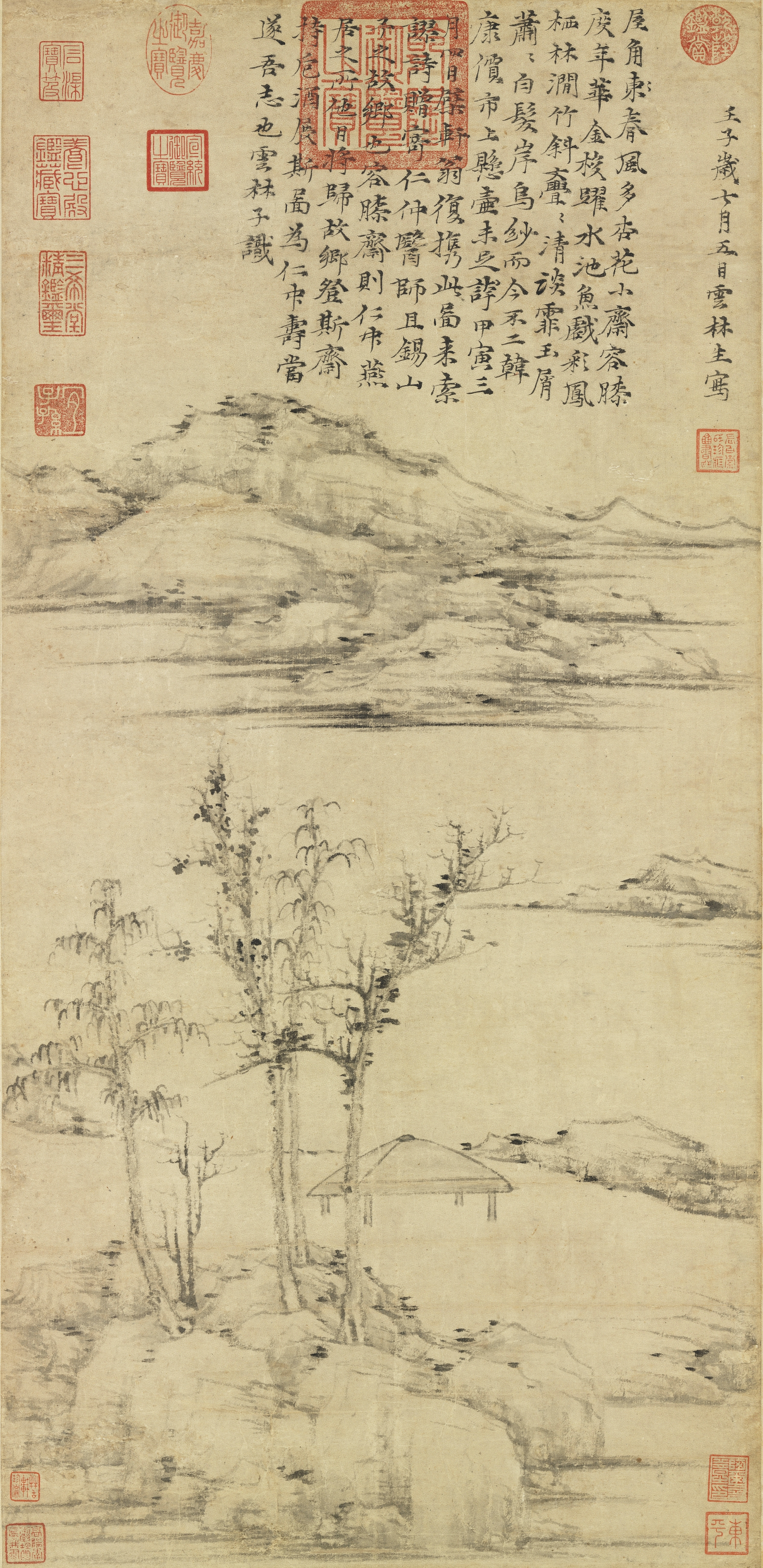 Ni_Zan._The_Rongxi_Studio.1372._74,7x35,3._National_Palace_Museum,_Taipei